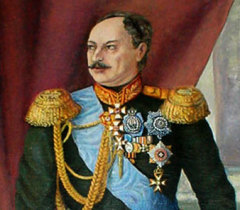 Aleksandr Ivanovič Černyšev (1786-1857)